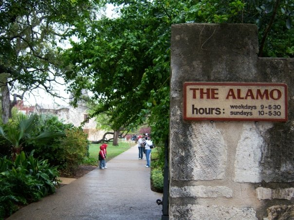 An image of the "The Alamo" sign at the current day Alamo Mission Museum.